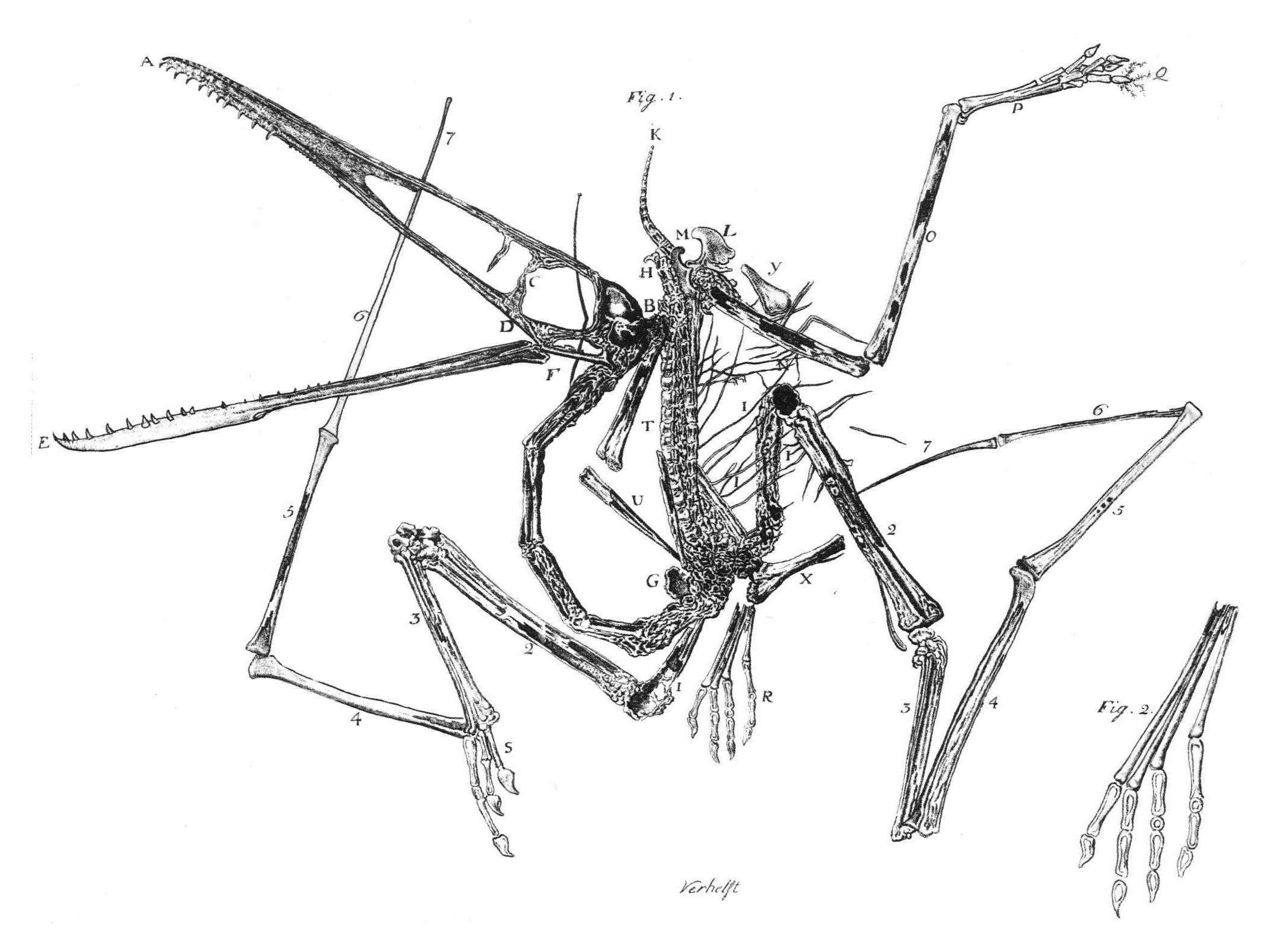 Copper engraving of the holotype fossil of Pterodactylus antiquus, then in the collection of the Palatine Elector in Mannheim, Germany. Description by Italian naturalist Cosimo A. Collini: Sur quelques zoolithes du cabinet d´histoire naturelle de S.A.S.E. palatine et de Baviere, à Mannheim. In: Acta Academiae Theodoro-Palatinae, vol. 5 Phys., Mannheim 1784, pp 58-71. Engraving by Egid Verhelst.